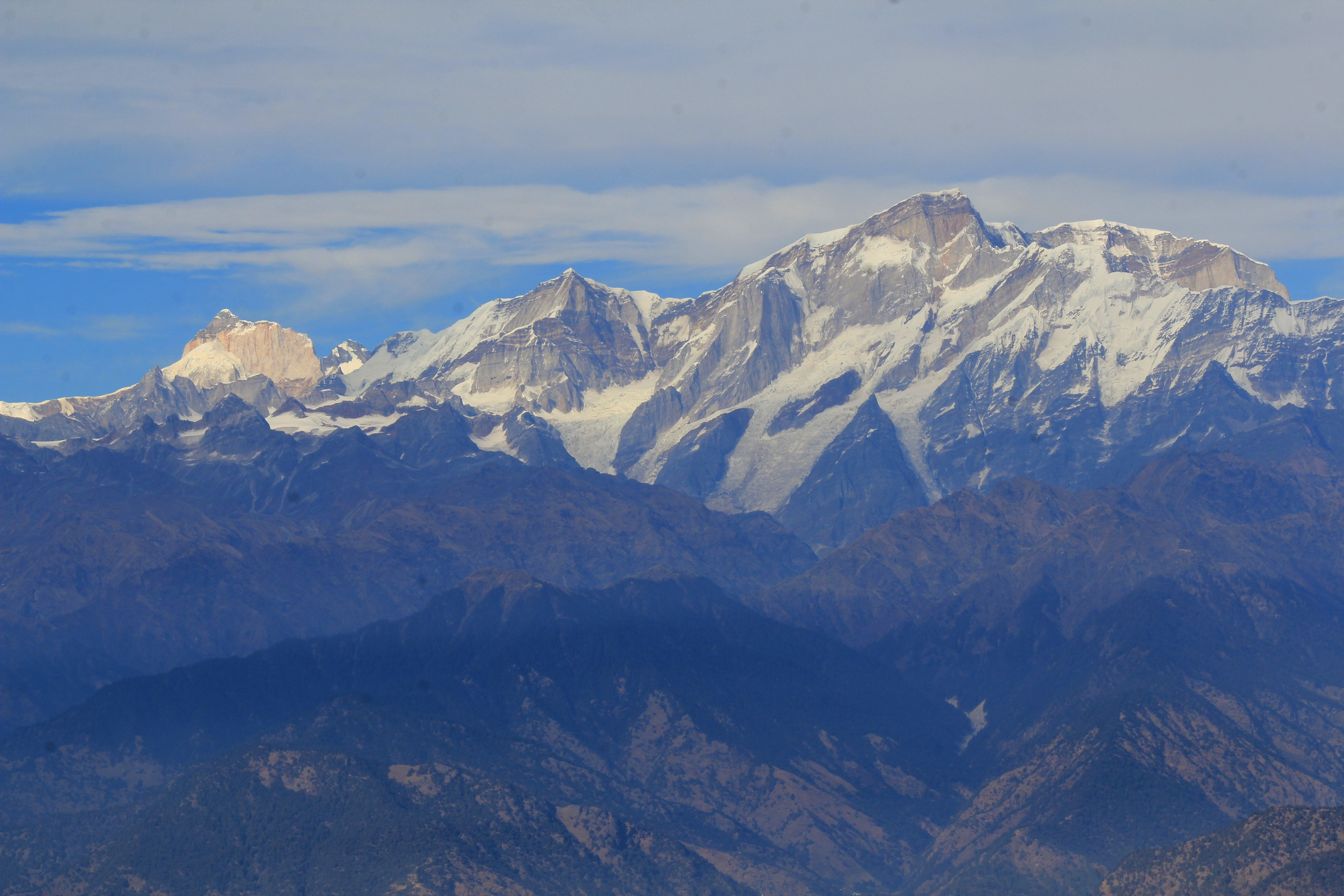 View of Himalayan peaks from Kartik Swami Temple